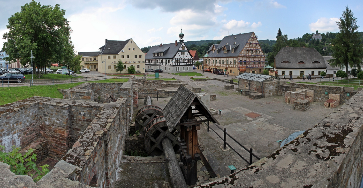 Olbernhau-Grünthal, historic copperworks.